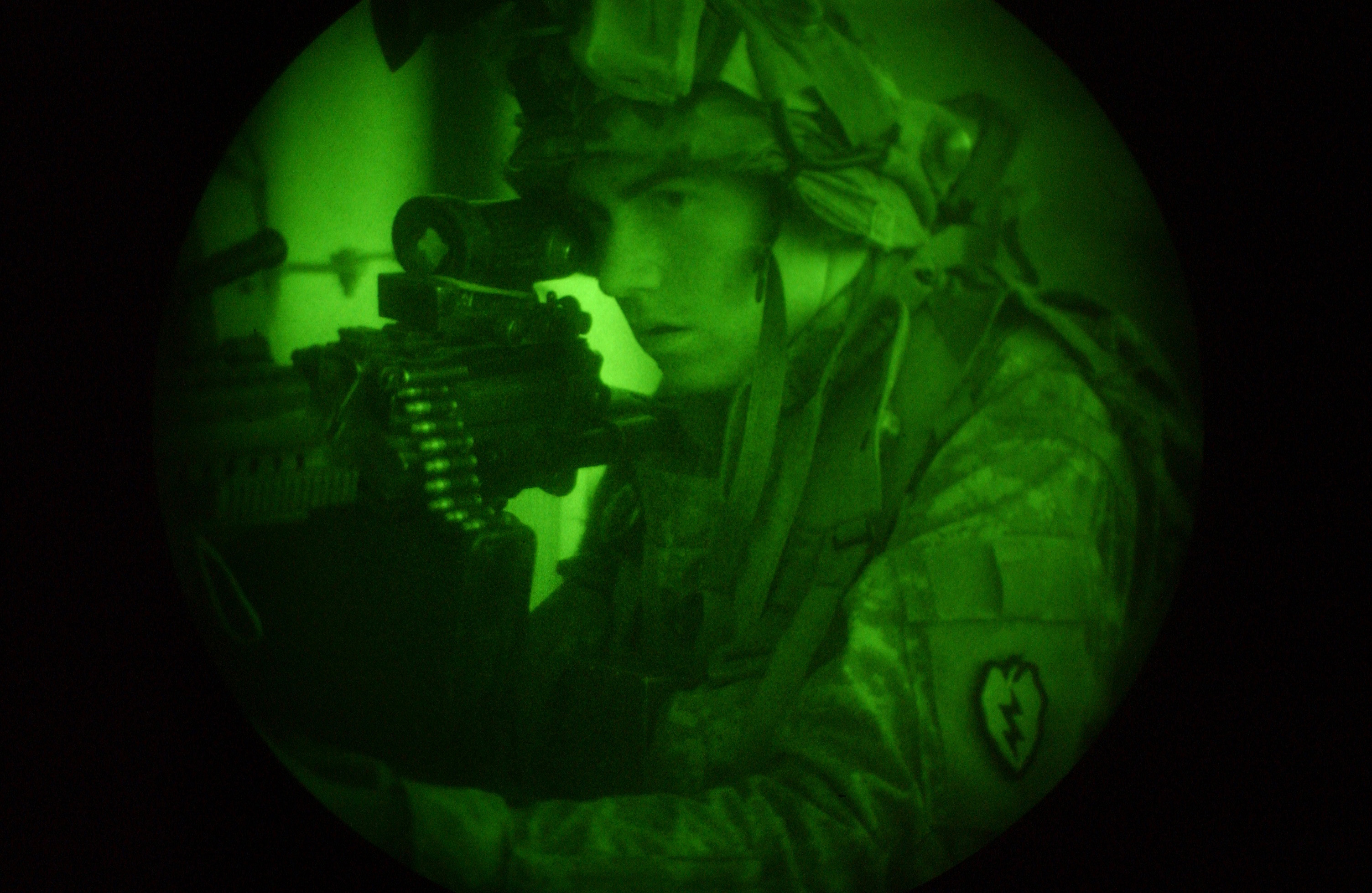 "05/02/06 - A U.S. Army Soldier from 2nd Battalion, 27th Infantry, 3rd Infantry Combat Brigade Team, 25th Infantry Division lays down surpressive fire during a raid in Al Jaff, a mock city at the National Training Center (NTC) on Fort Irwin, Calif., May 2, 2006. The 25th ID was at NTC to hone and improve their war fighting skills for future deployments." This is not a night vision device. It is known in the US military as an M145 or civilian name SpecterOS3.4x. It was developed as part of Advanced Combat Rifle program of the 80's. If you look in the picture, it seems as if he's not even looking into the device itself. Look it up, it's on Wikipedia.